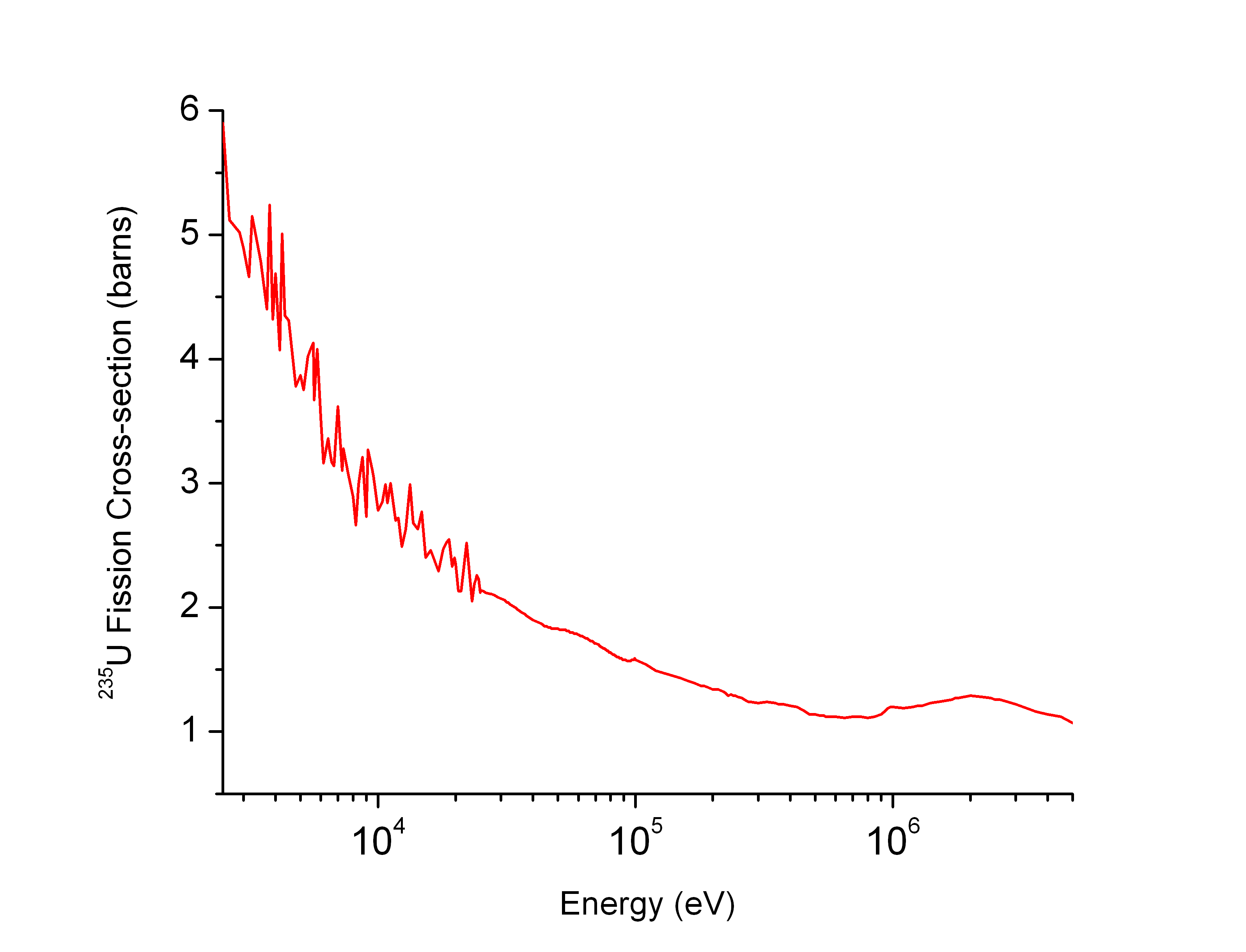 Energy dependence of the fission cross section of U235.